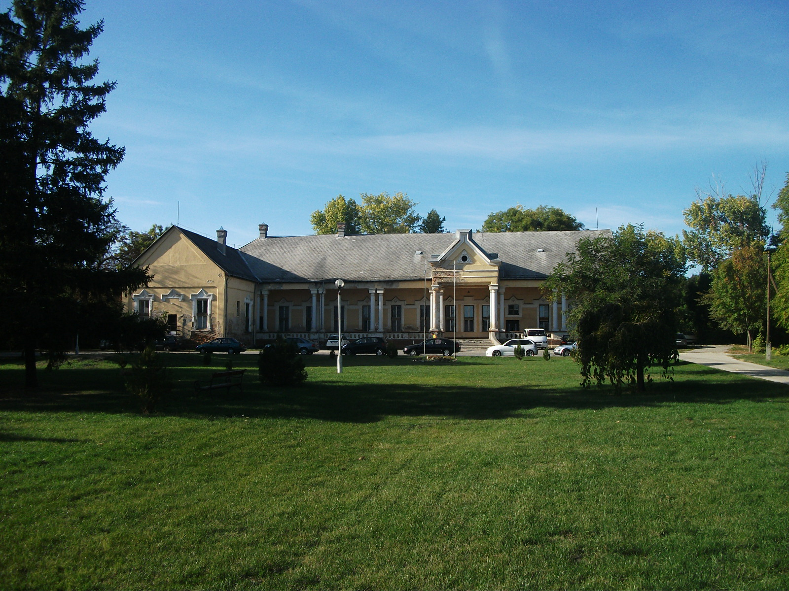 Zichy-kastély in Zichyújfalu.